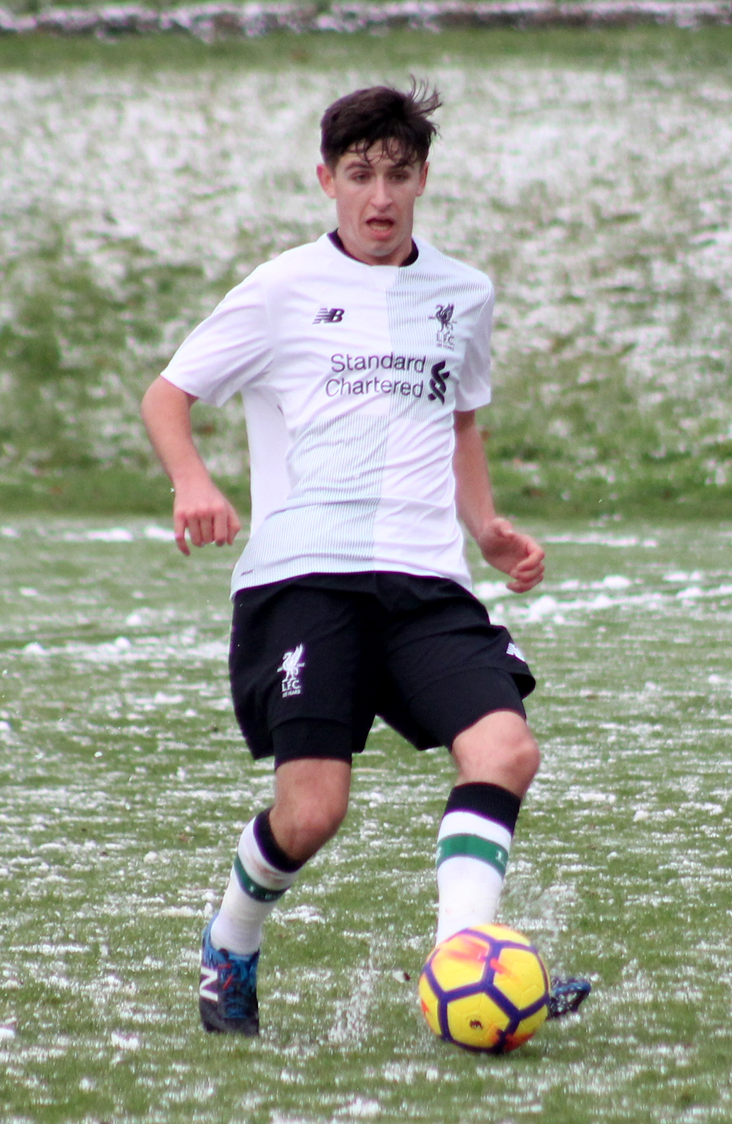 Anthony Glennon of Liverpool during the U18 Premier League match against Manchester United at The Cliff, Salford, England on Saturday 9 December 2017.